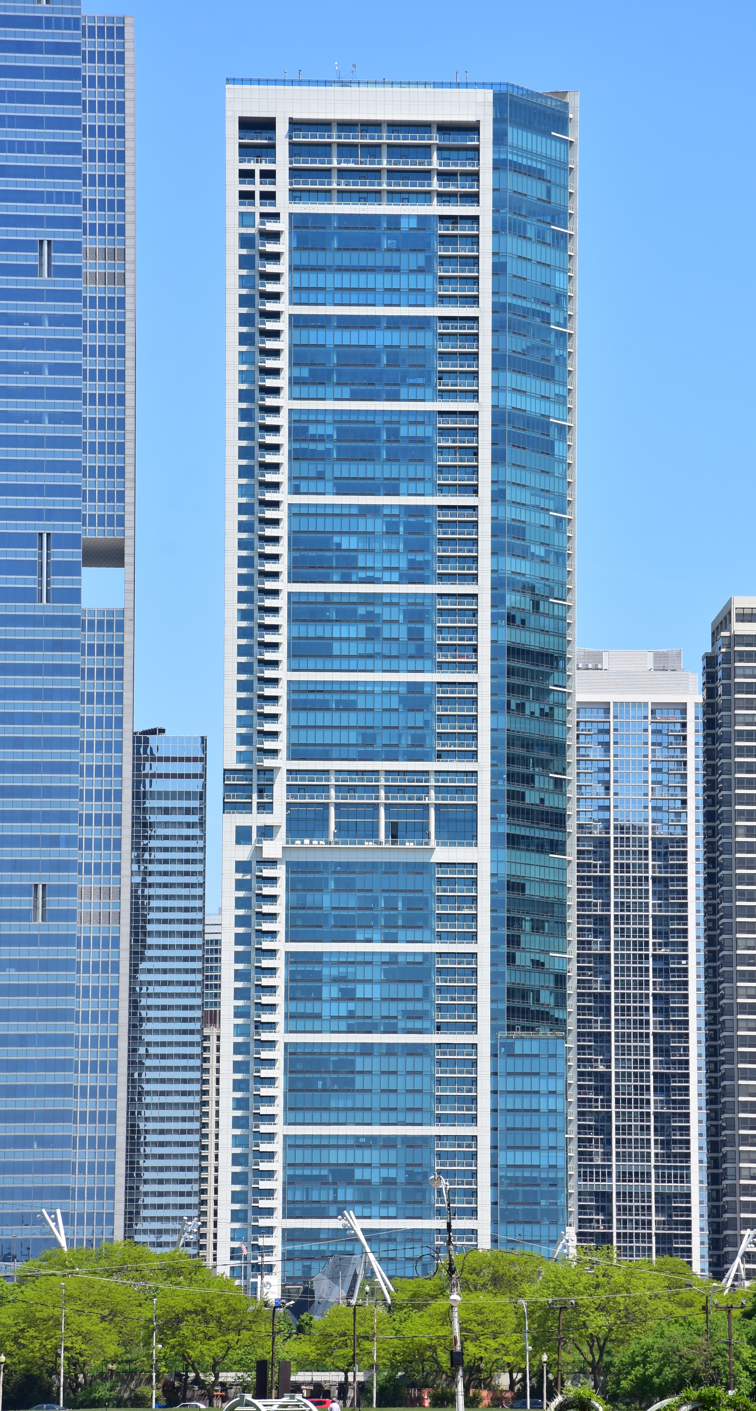 340 on the Park, Chicago in May 2016